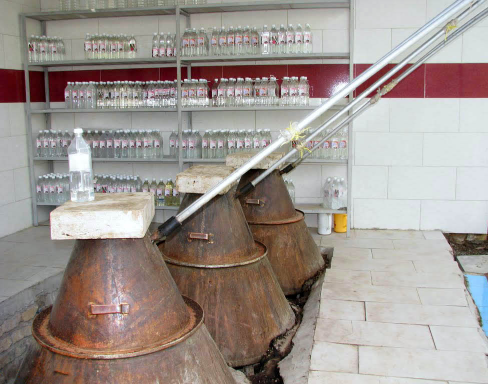 A small manufactory of rose water in Niasar, Kashan County.